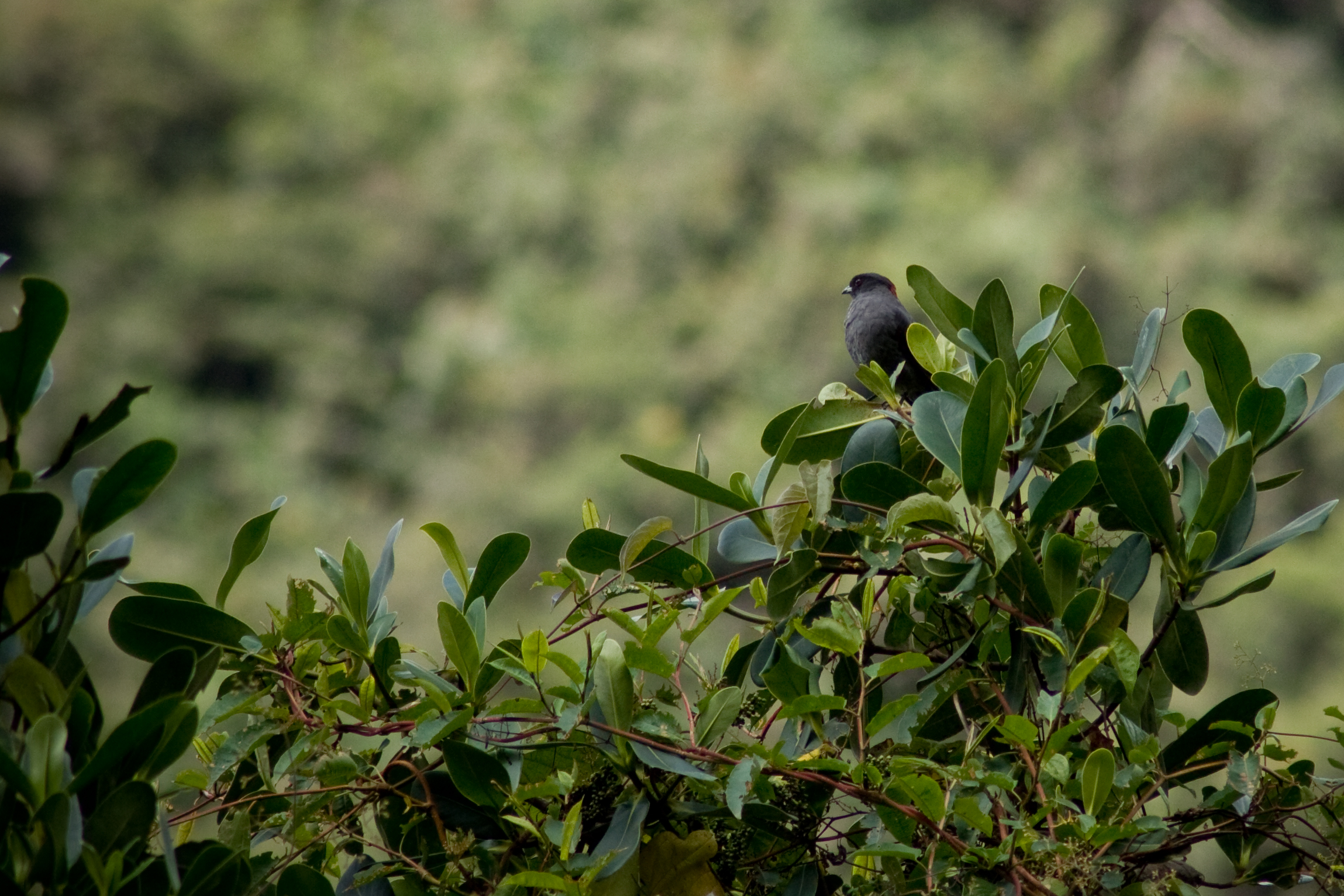 Red-crested Cotinga in Peru.